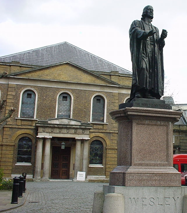 Wesley's Chapel and Statue, City Road, London